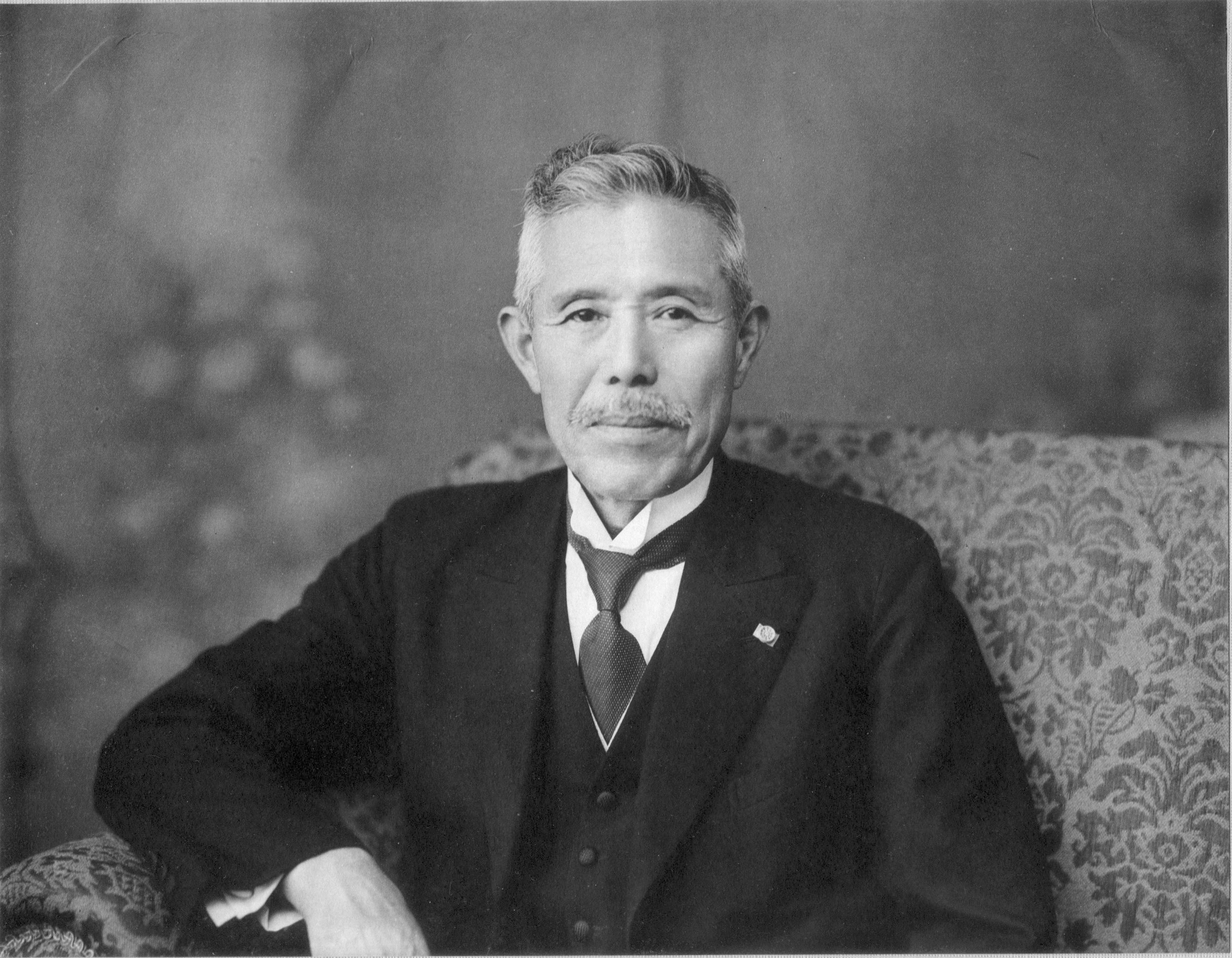 Kurata Morishima, a pharmacologist and a professor in Kyoto Imperial University. Digitized from 70th anniversary photo album of Morishima dated on Nov. 3, 1937.